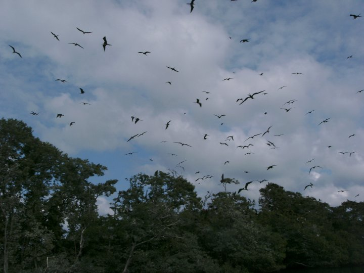 Bird Island, near Tobacco Caye, Belize. Conservation Island. Regained ecological strength after hurricane in 2001.